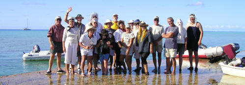 Group of people, landed on the island.